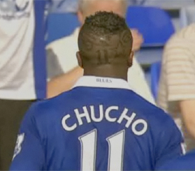 Taken by myself on the 22nd August 2009 at Birmingham City vs Stoke City in the Premier League fixture.